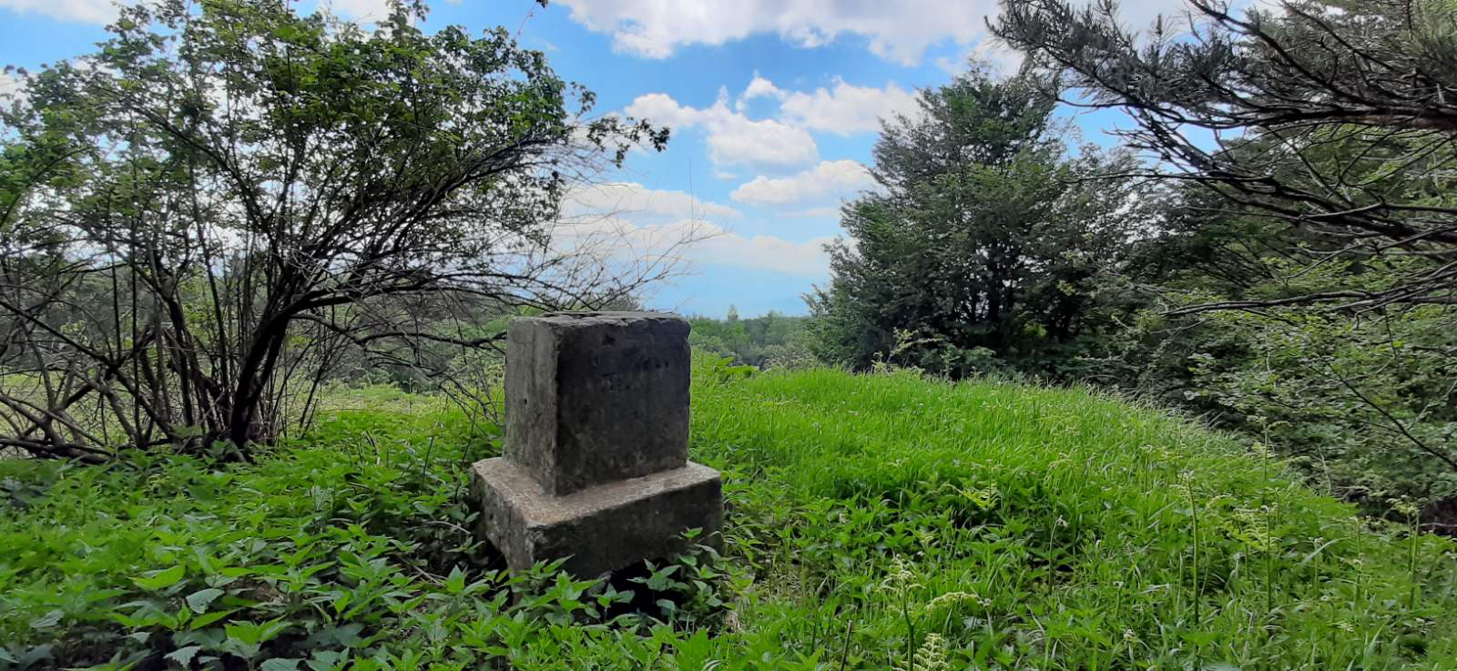 Benkovski peak, Bulgaria